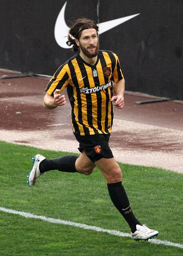 Dmytro Chygrynskiy after scoring against AEL FC (3:0)